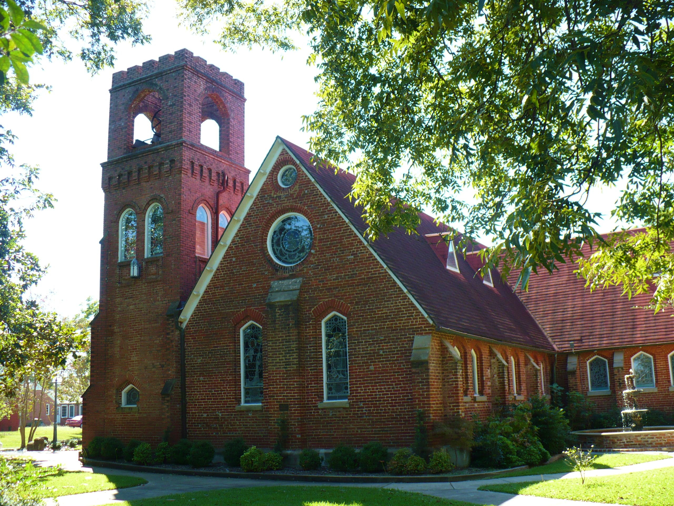 Trinity Episcopal Church in Demopolis, Alabama, United States. Built in 1870 to replace an earlier building, completed in 1857. The congregation was established in Demopolis in 1834.